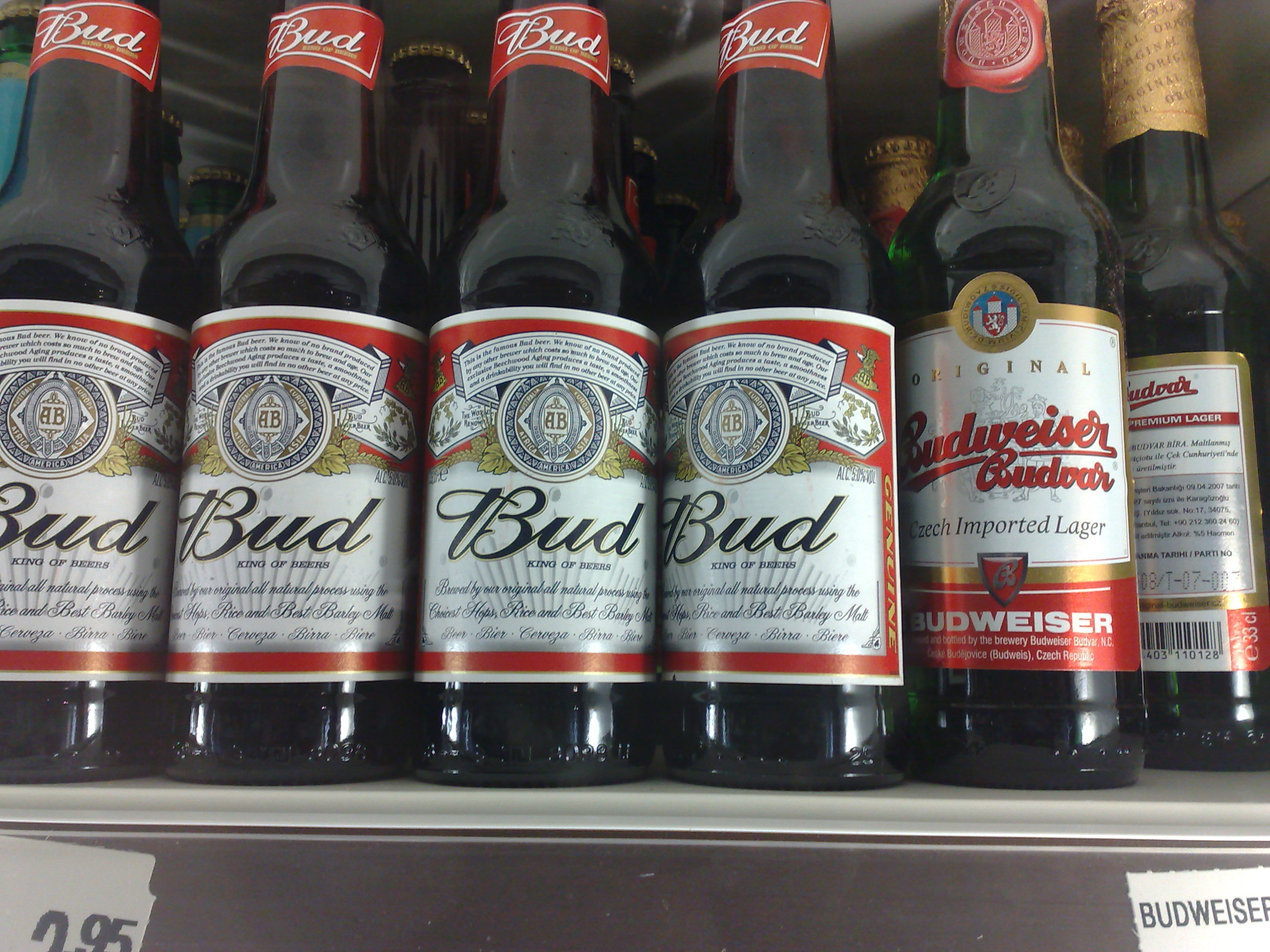 American and Czech Budweiser in Tray